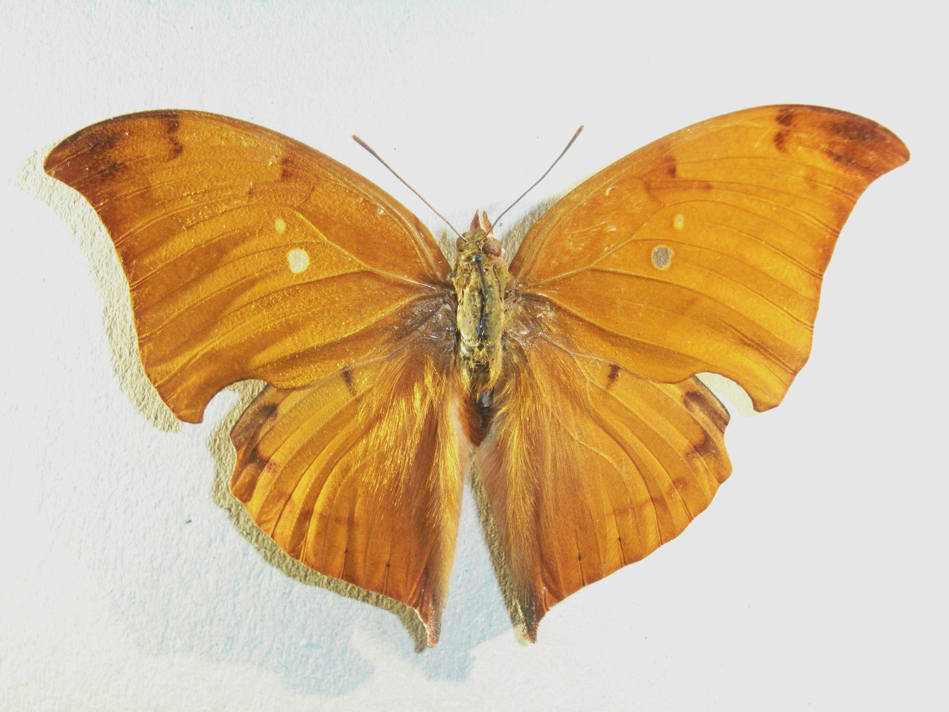 Zaretes isidori:Charaxinae:Nymphalidae